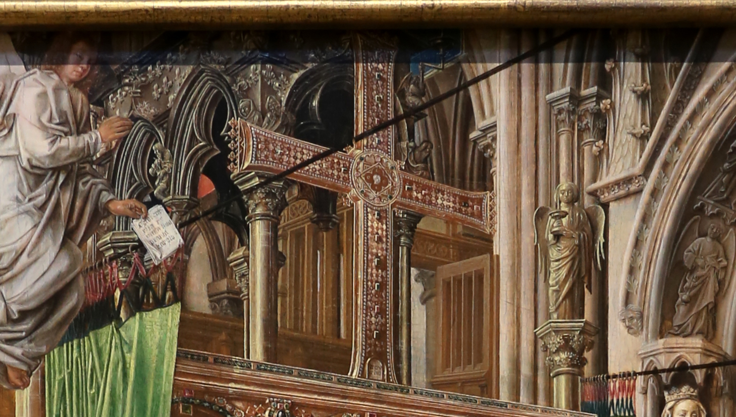 The image shows the Cross of Saint Eligius (Croix de Saint-Éloi in French) from the Treasury of Saint-Denis, represented in the painting The Mass of Saint Giles, by an anonymous painter known as Master of Saint Giles. The painting, now in the National Gallery in London, dates from around 1500. The Cross of Saint Eligius was a cross of gold, silver, precious stones, pearls, mother of pearl and a large cameo, which was donated by Dagobert I, king of all the Franks (who reigned between 629 and 639) to the Basilica of Saint-Denis, close to Paris. It was preserved there for centuries and it was part of the Treasure of Saint-Denis, together with many other historical, artistic and religious pieces of enormous importance to the French monarchy, including royal crowns and regalia. The cross dated from the first half of the 7th century, was about 2 meters high and was an important Merovingian goldsmithing work. It was considered the work of Eligius of Noyon (later canonized by the Church as Saint Eligius, patron of goldsmiths, blacksmiths, and all workers in metal). The cross was seized and melted during the French Revolution (1789-1799).